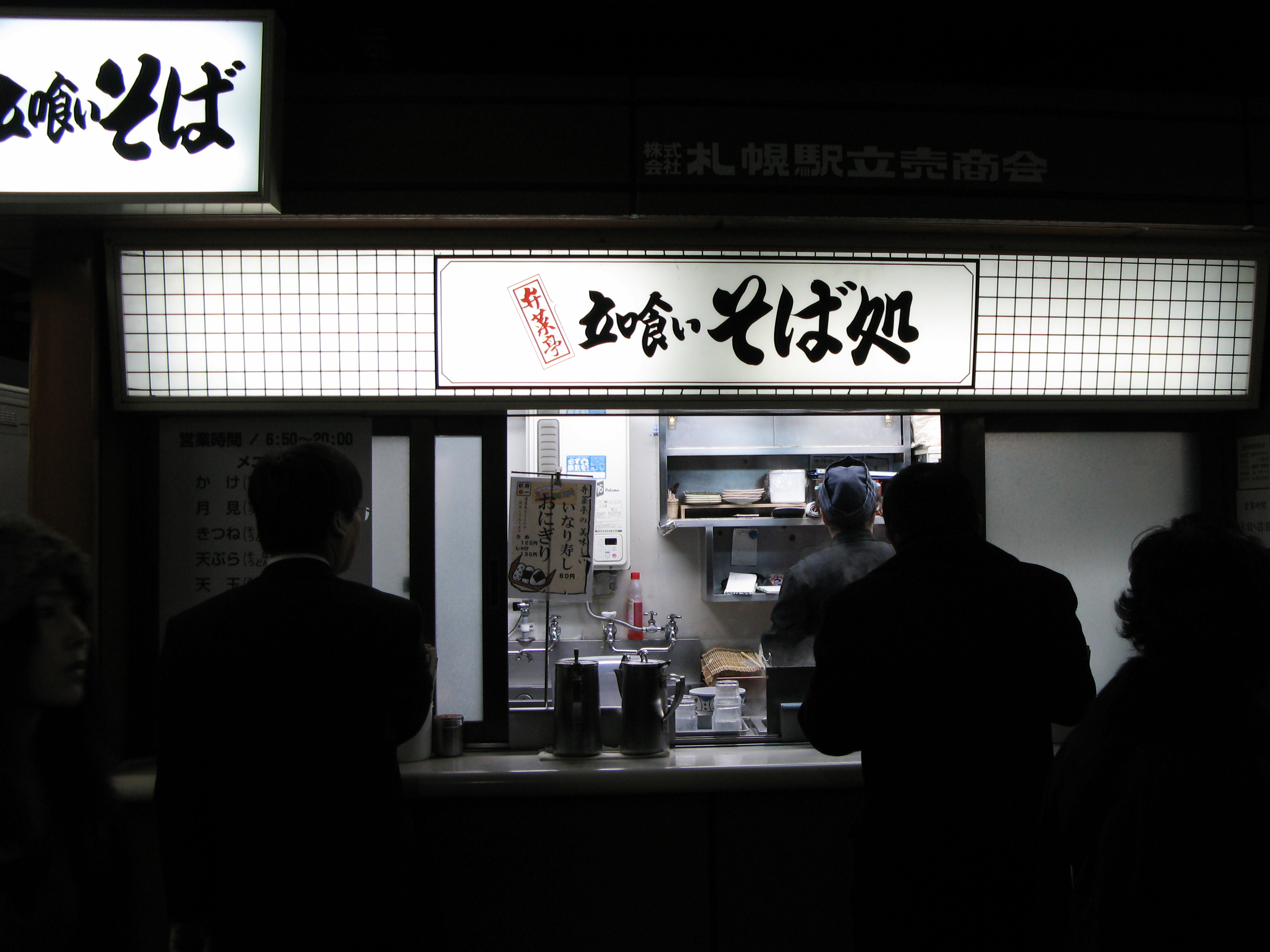 Standing up eating SOBA.